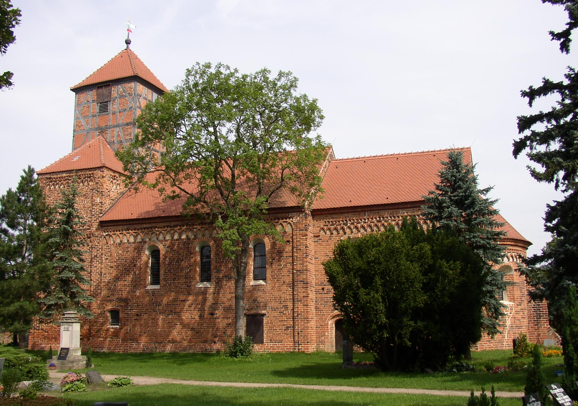 Church in Wulkow-Großwulkow in Saxony-Anhalt, Germany